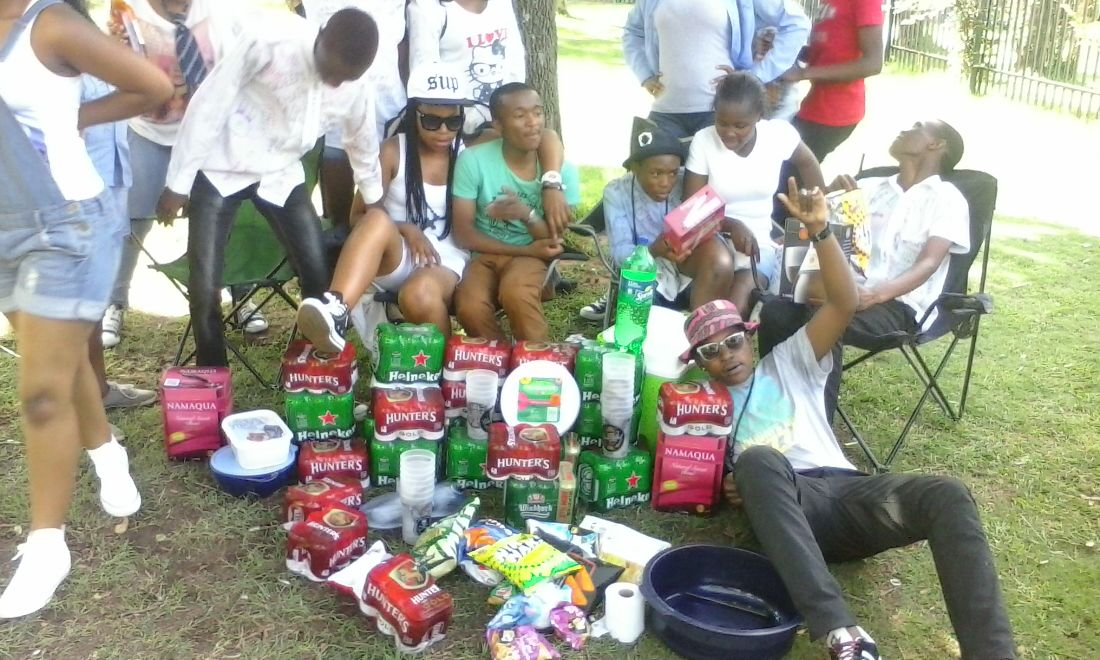 this picture proves all claims about africa being a hopeless continent wrong